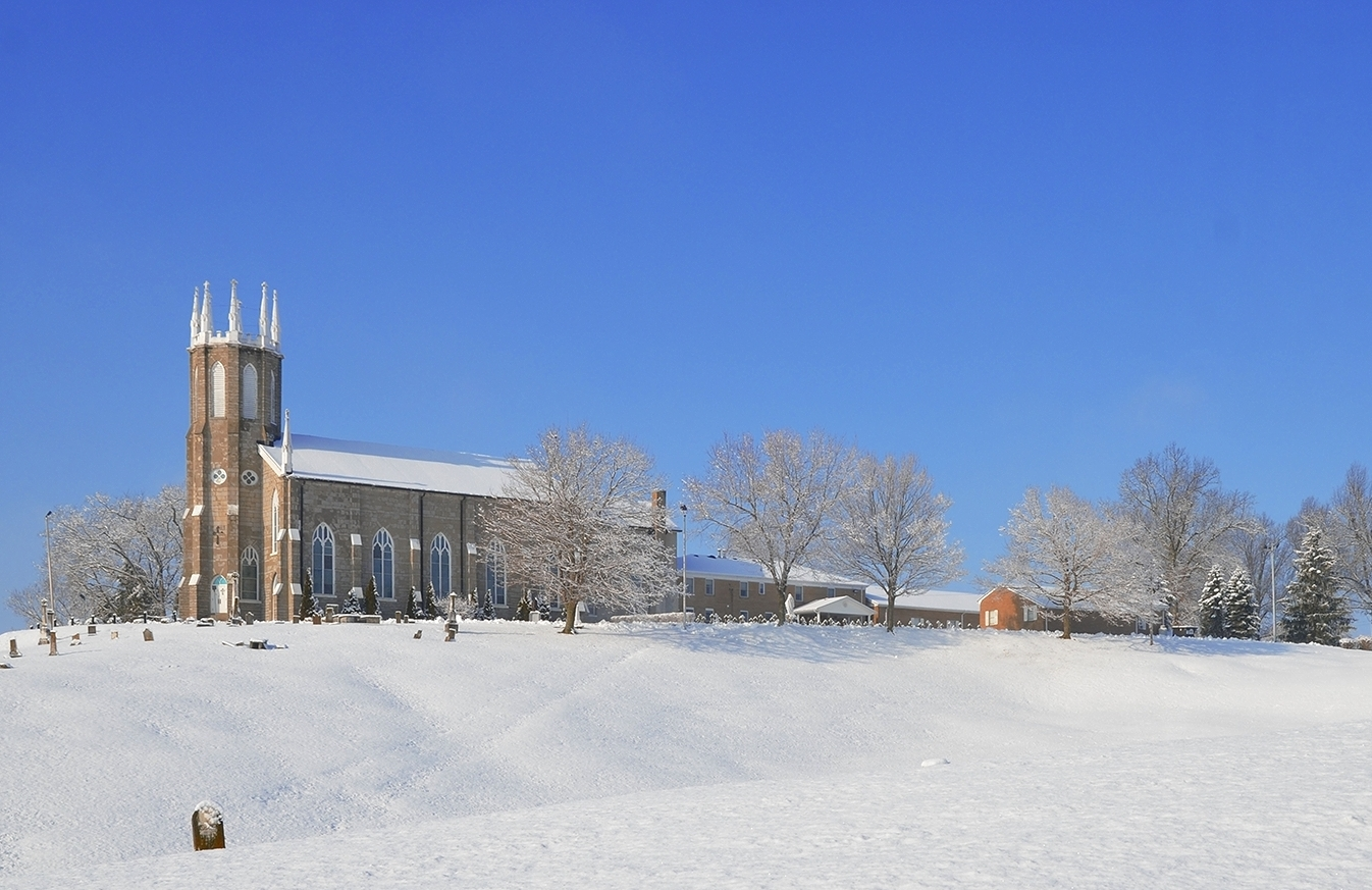 St. Rose Catholic Church after a snowfall the previous night.